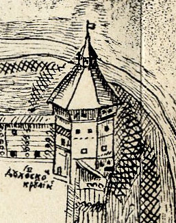 Viciebsk in 1664, drawing